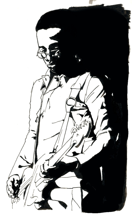 Curtis Mayfield